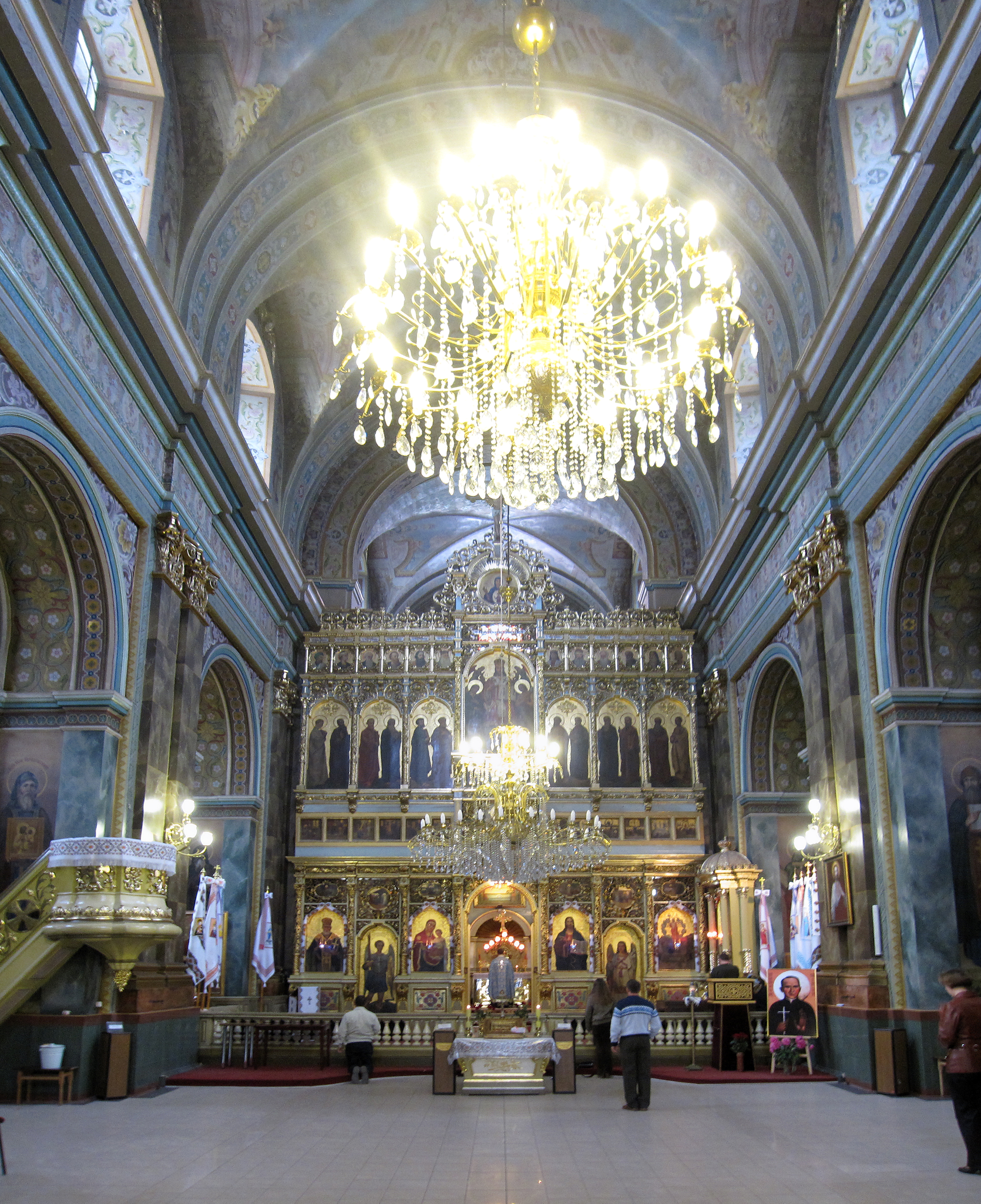 Interior of the Cathedral of Holy Resurrection in Stanisławów